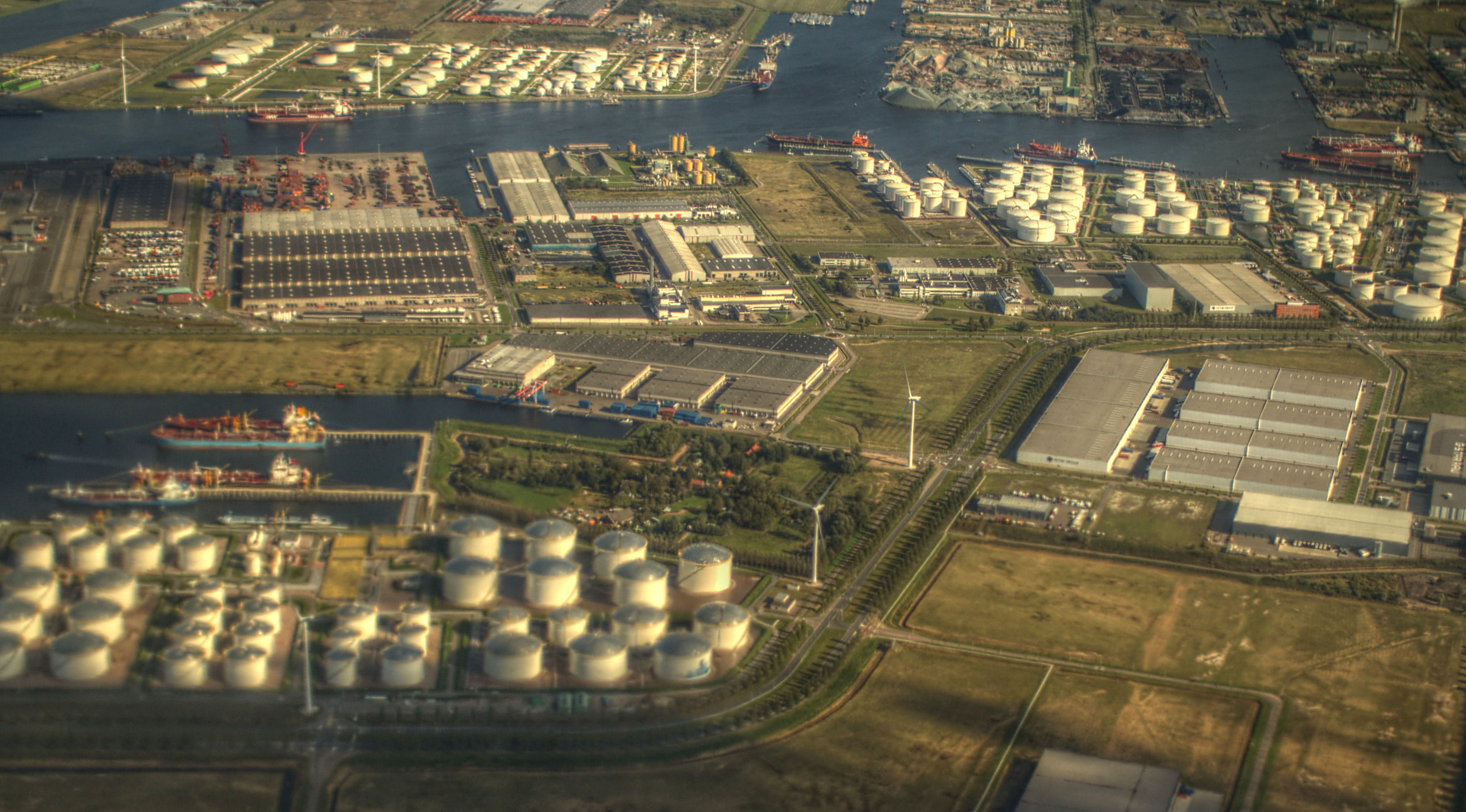 The village of Ruigoord near Amsterdam, the Netherlands. October 7, 2012